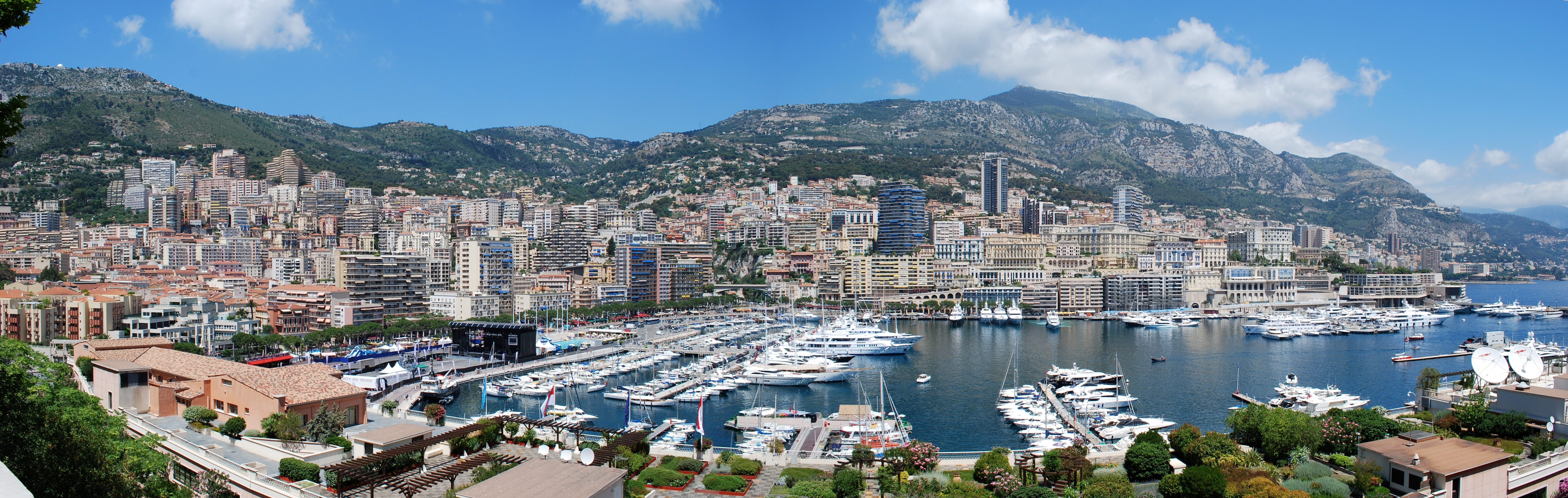 Panoramic view of La Condamine, Monaco.